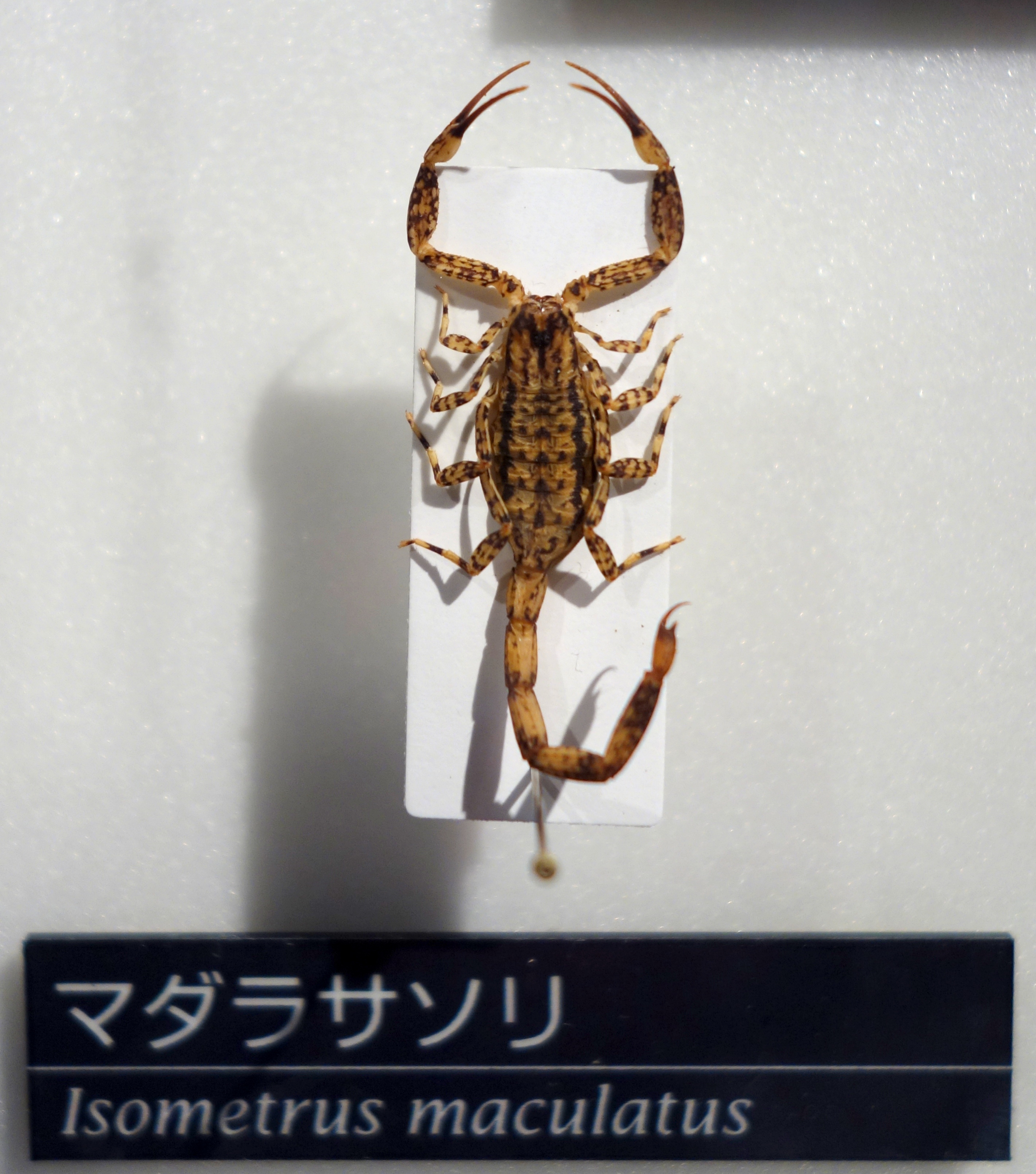 Exhibit in the National Museum of Nature and Science, Tokyo, Japan.